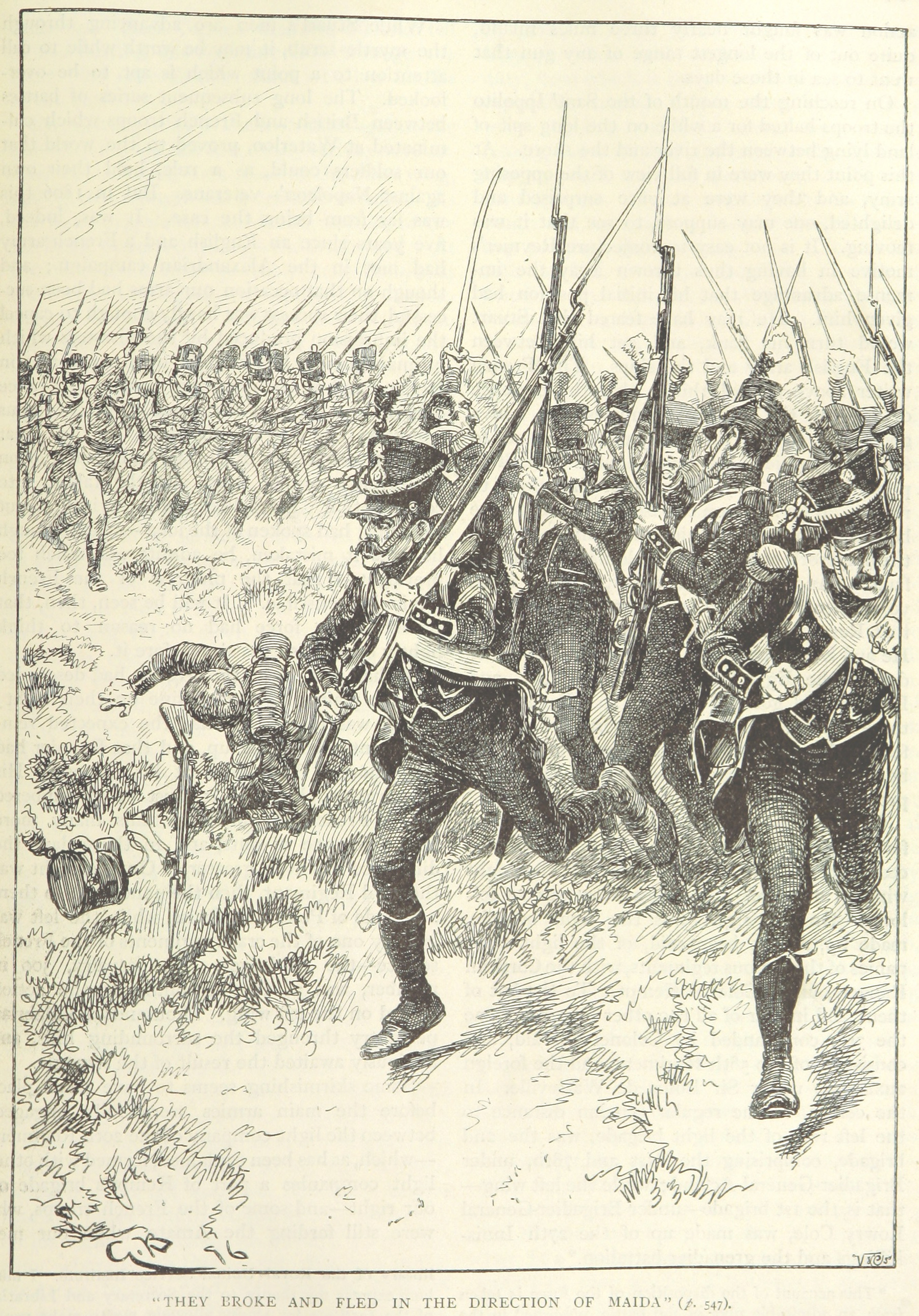 An illustration of the French 1st Light Infantry Regiment breaking at the Battle of Maida.